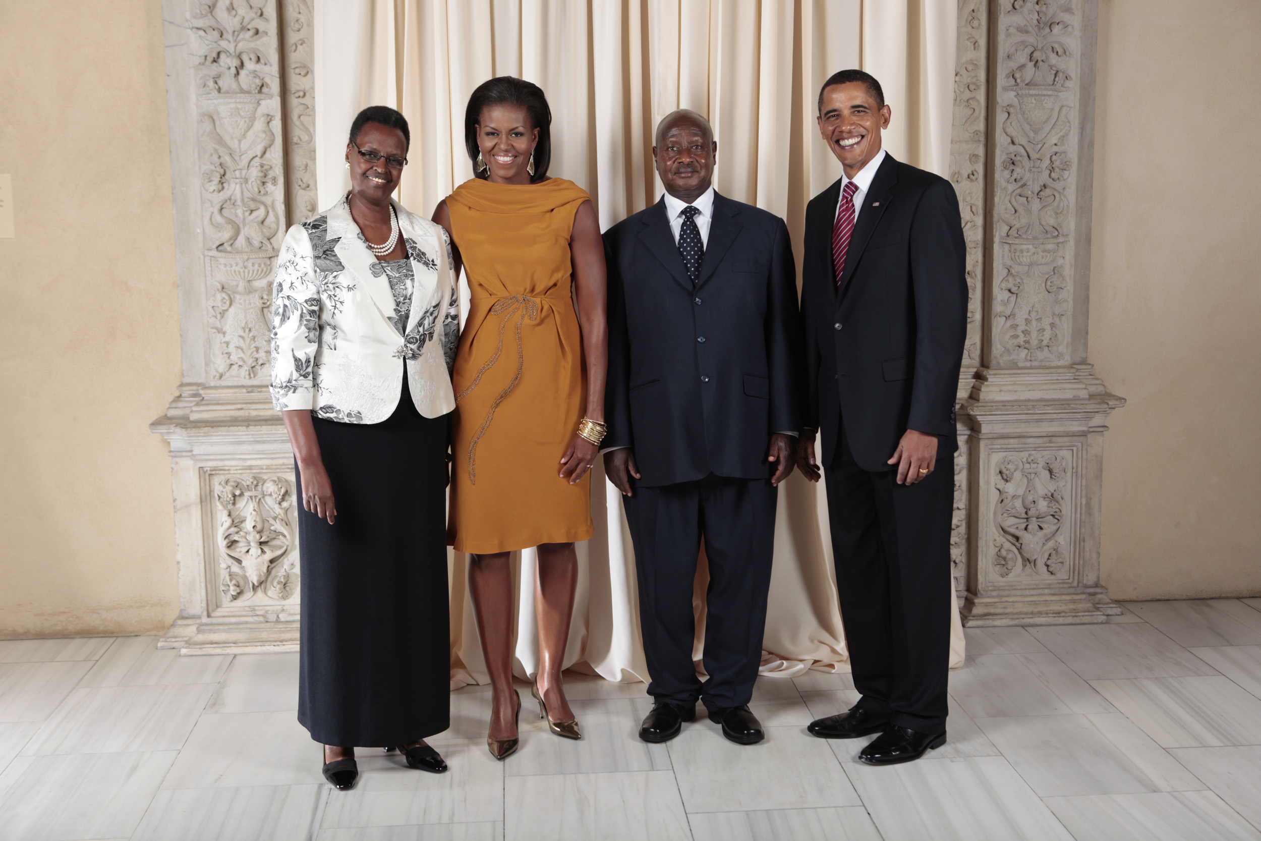 President Barack Obama and First Lady Michelle Obama pose for a photo during a reception at the Metropolitan Museum in New York with Yoweri Kaguta Museveni, President of Uganda, and his wife, First Lady Janet Museveni.